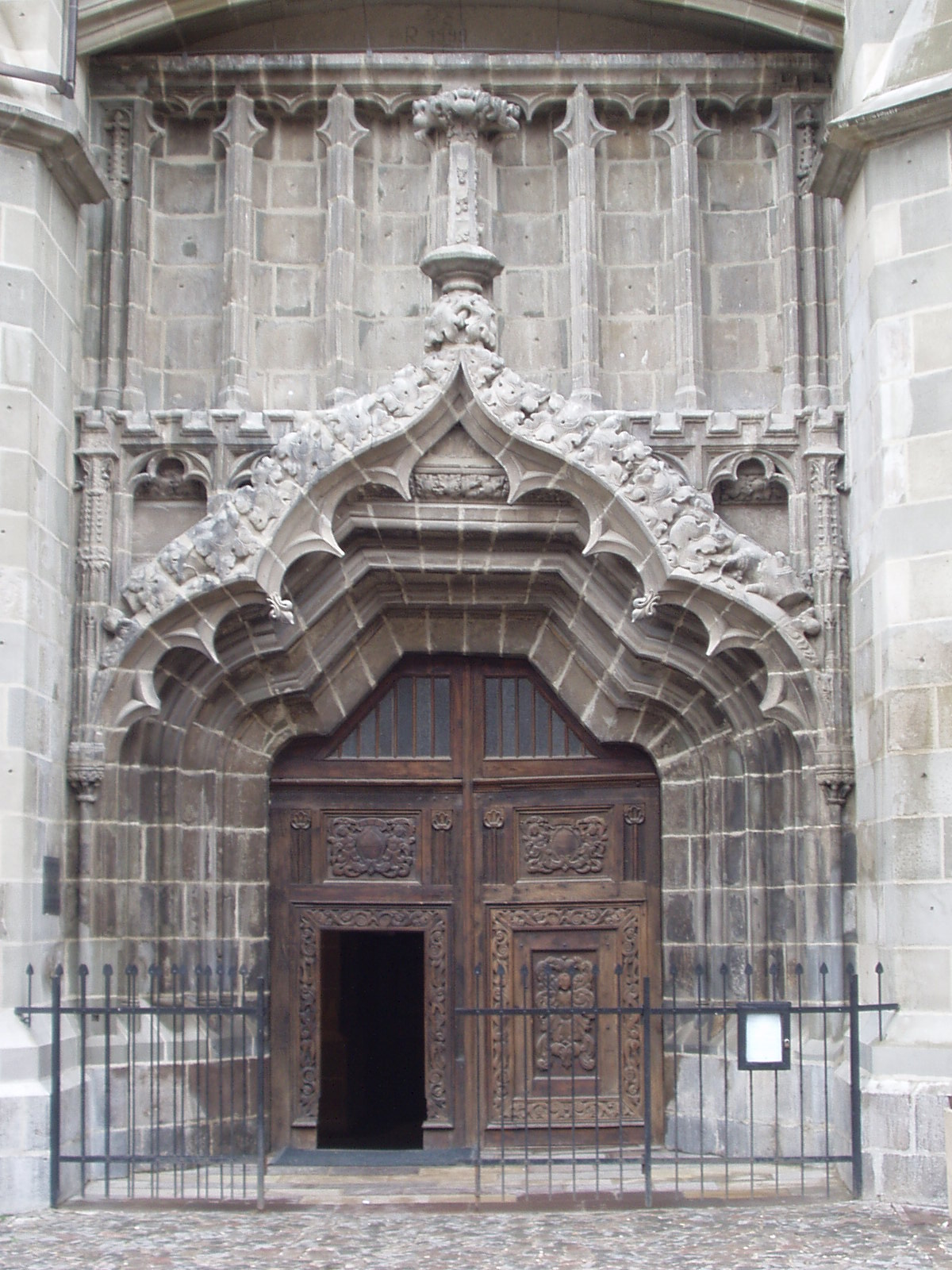 Entrance to the Biserica Neagră (Black Church) in Braşov, Romania